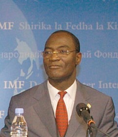 Bohoun Bouabré, Minister of Finance of Cote d'Ivoire, taken at the IMF Spring Meeting 2004